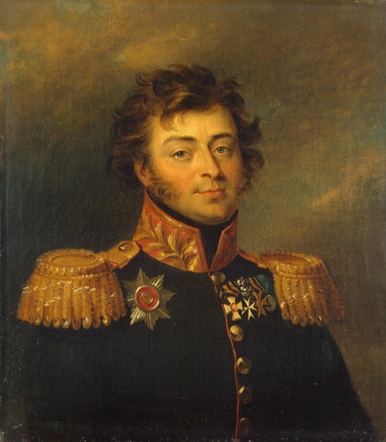 Alexandr Aleksandrovich Bashilov (1777-1849) russian general-mayor